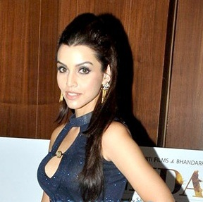 Kyra Dutt snapped on (2 September 2015) at the launch of Martini Queen in Mumbai.